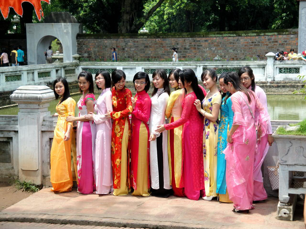 These lovely girls were going through the temple on a fashion shoot.